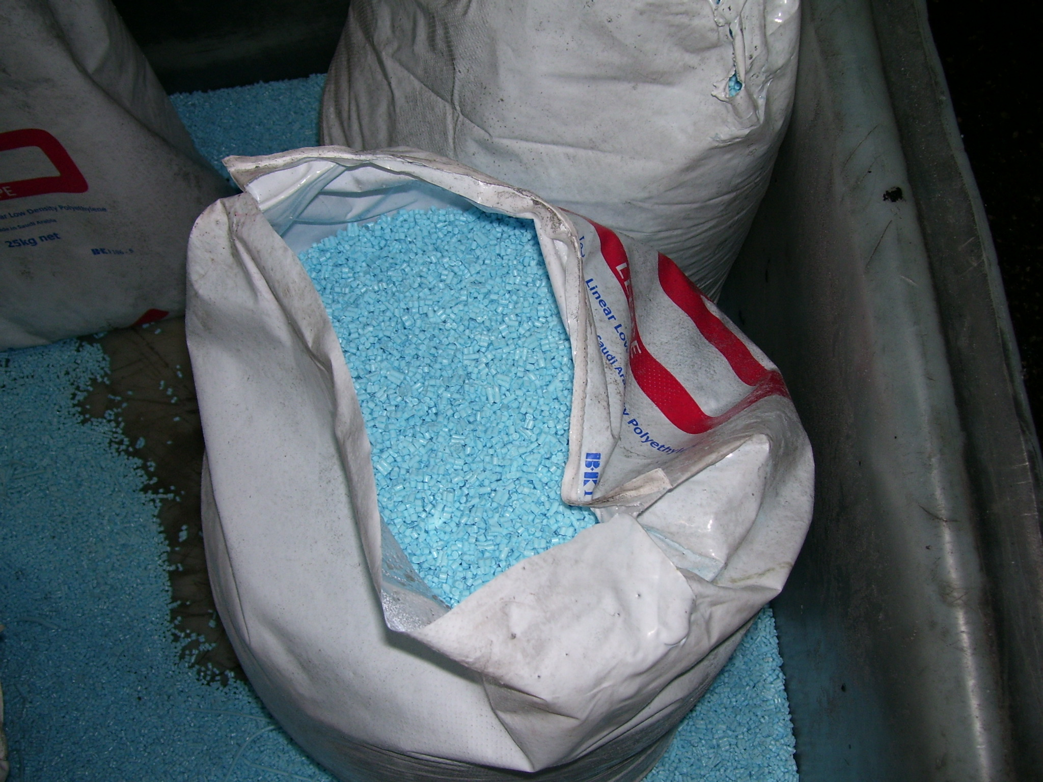 Plastic pellets (granule, nurdle) for rotation moulding Foto by: C.Rieck, Nairobi, 2007